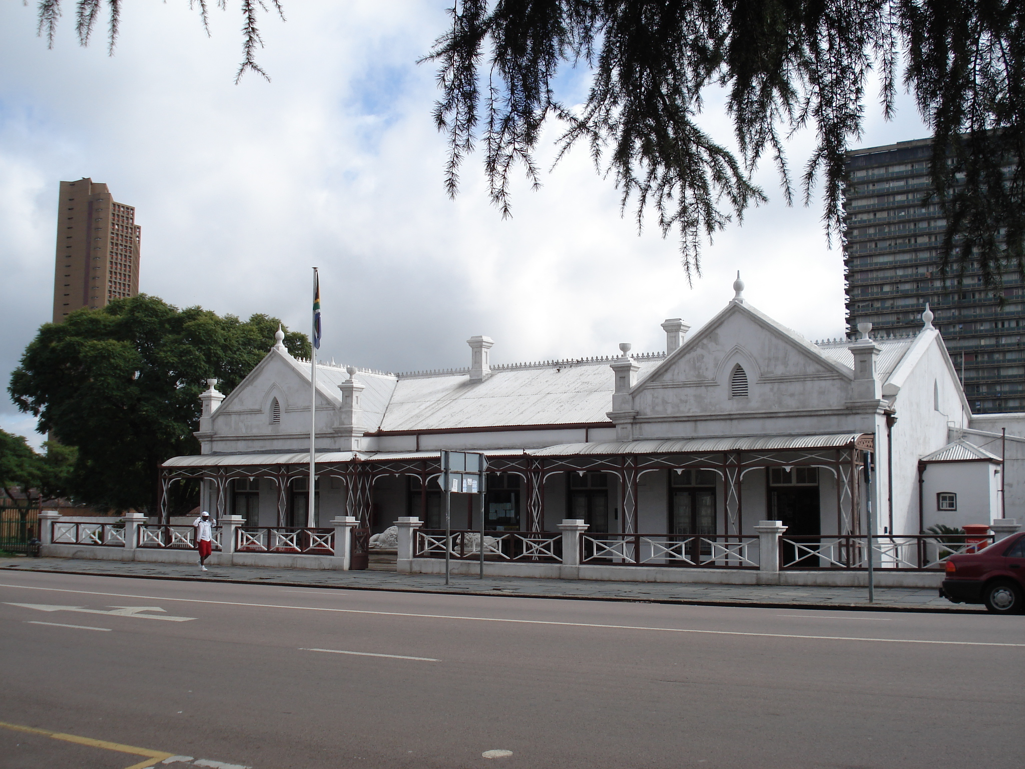 This media shows a South African Protected Site with SAHRA file reference 9/2/258/0010.